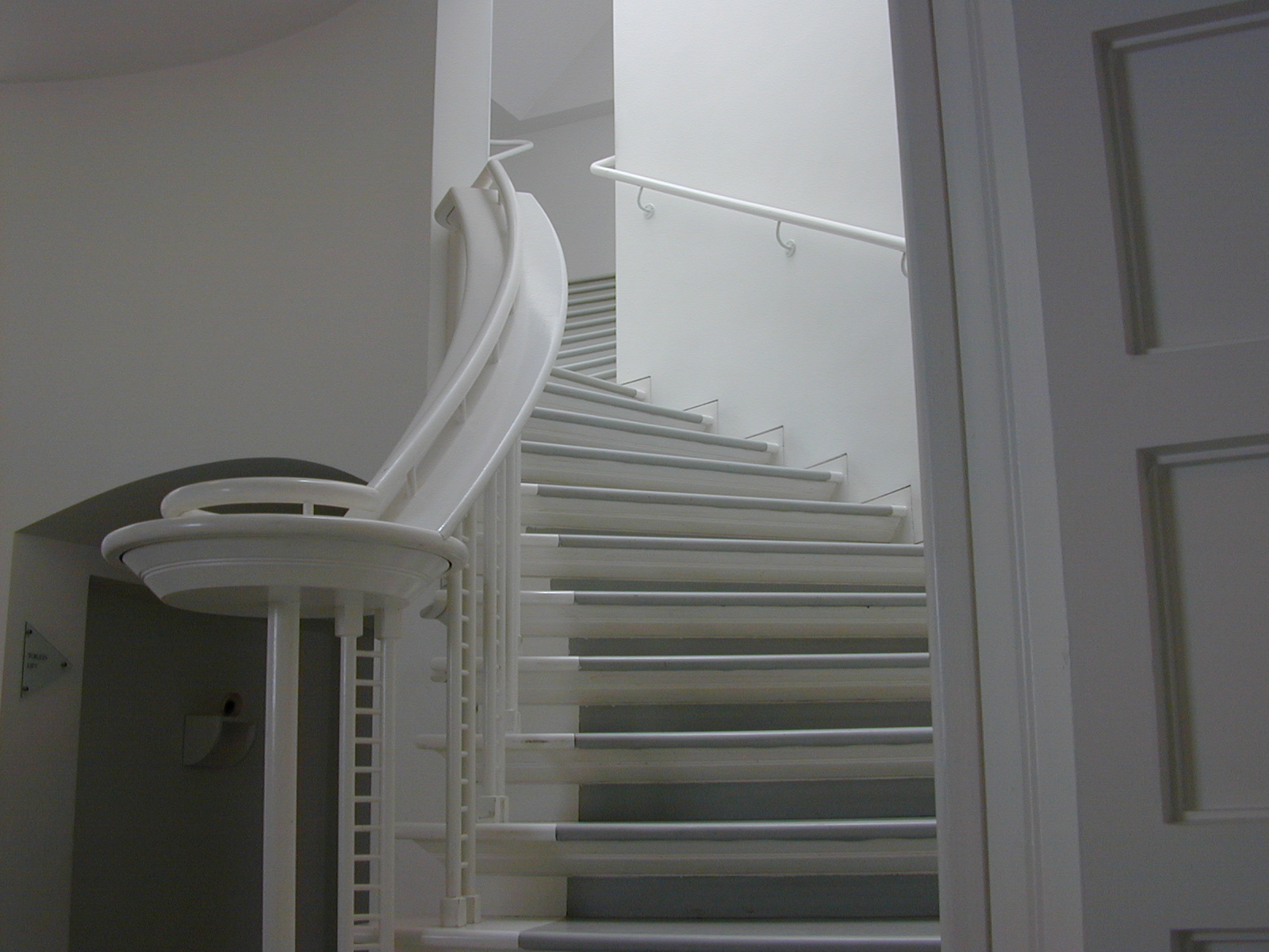 Tate St Ives staircase colour photo